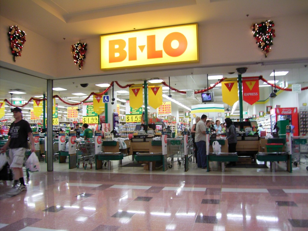 Photo of a BI-LO supermarket in Sydney, Australia. Taken 13th December 2005. Own picture.